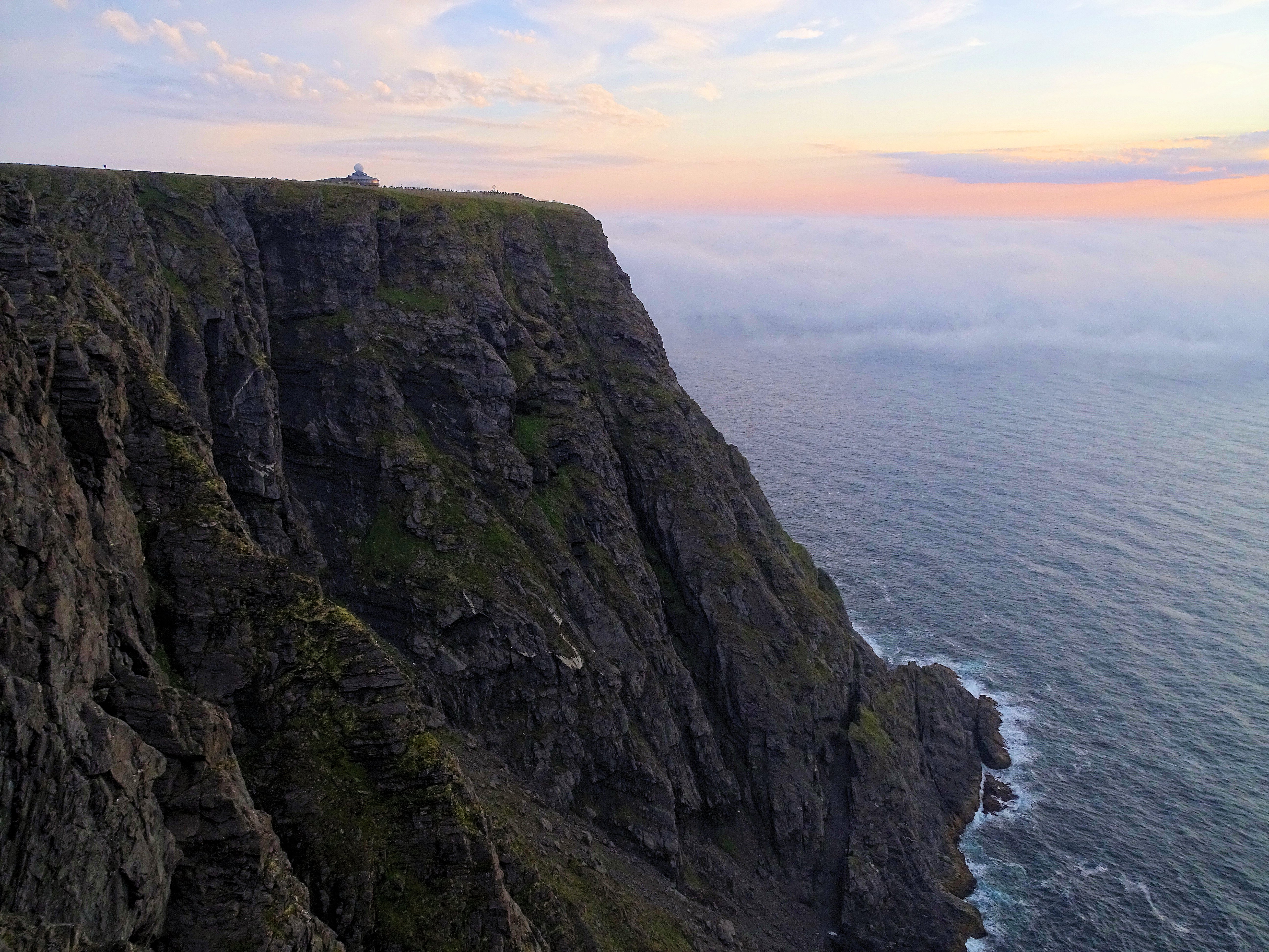 North Cape seen from the east shortly after midnight. Hundreds of tourists are witnessing the midnight sun while fog is rolling in from the west.